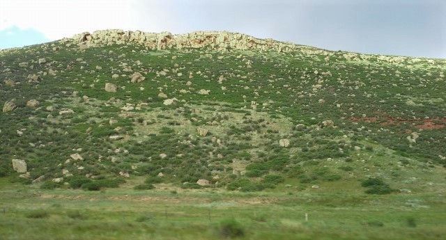 West face of the Dakota Hogback, viewed from ​​U.S. Route 287, roughly 10 miles NW of Fort Collins. The crest is about 400 feet above the road. The highest outcrop​ is South Platte Formation, which correlates to Cretaceous Dakota Formation classifications outside of Colorado. The red coloration to the right is the Triassic Jelm Formation.